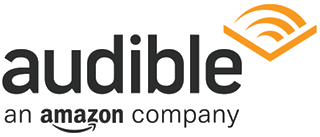 Logo of , a seller and producer of spoken audio entertainment.